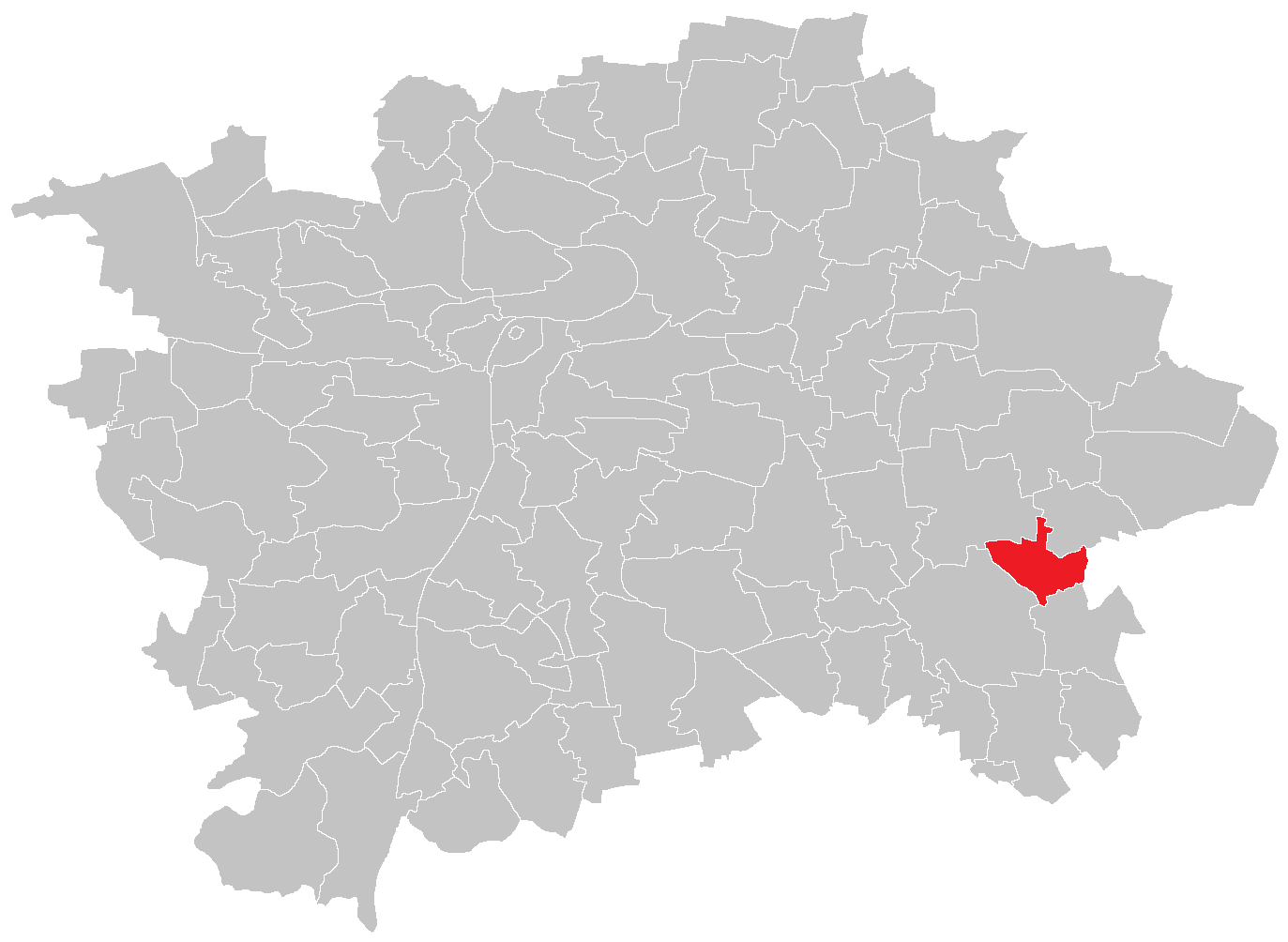 Location map of Prague cadastral area Hájek u Uhříněvsi